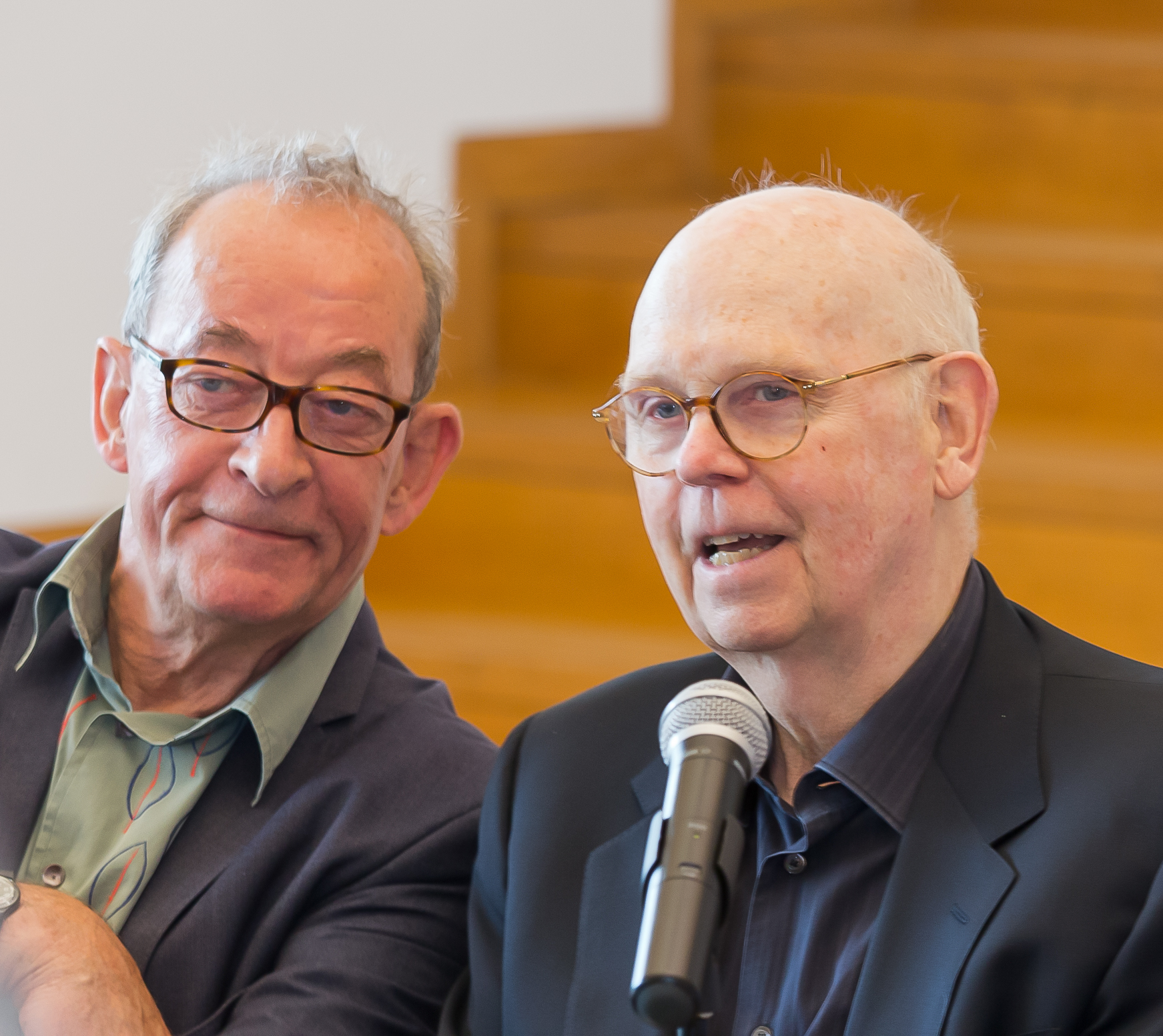 Press conference in Museum Ludwig, Cologne, for the opening of the exhibition "Claes Oldenburg - The Sixties" Picture: Kasper König (director of Museum Ludwig) and Claes Oldenburg